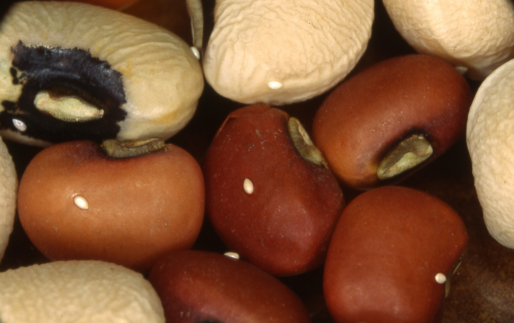 Eggs of Callosobruchus maculatus on cowpea and azuki